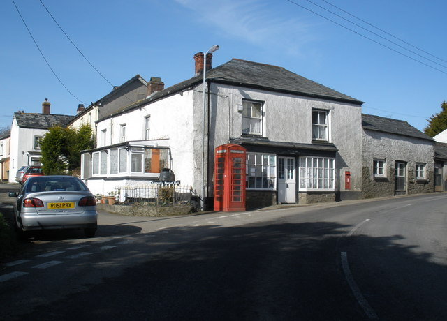 The Post Office, Grimscott, near to Grimscott, Cornwall, Great Britain.